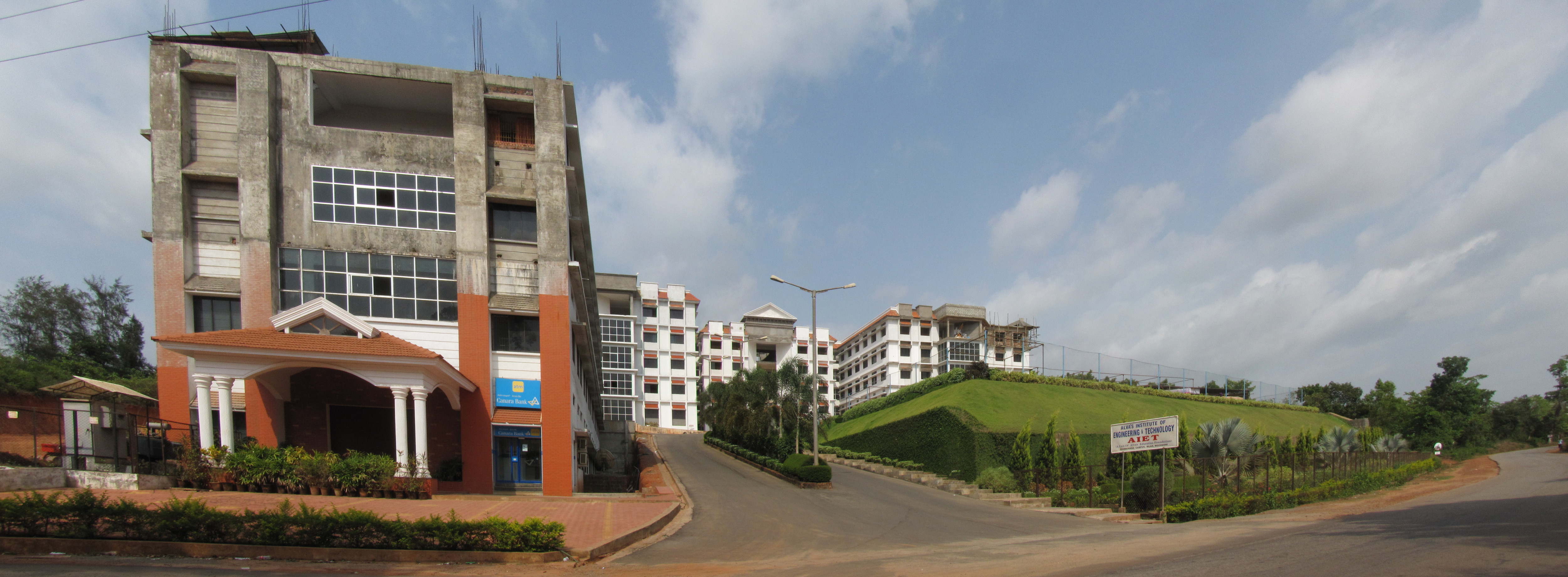 ALVA's Institute of Engineering & Technology, Moodabidri